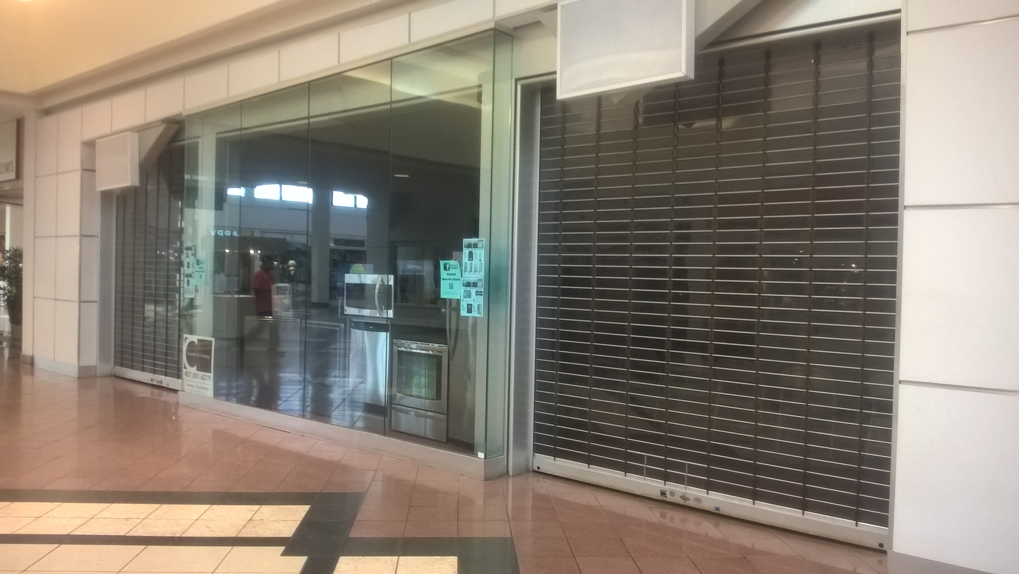 A former 5-7-9 store at the Merritt Square Mall